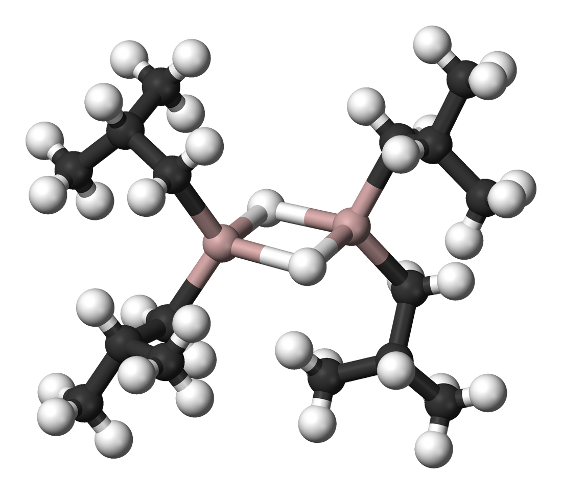 The ball-and-stick model of diisobutylaluminium hydride, also known as DIBALH, DIBAL, DIBAL-H or DIBAH, showing aluminium as pink, carbon as black, and hydrogen as white.